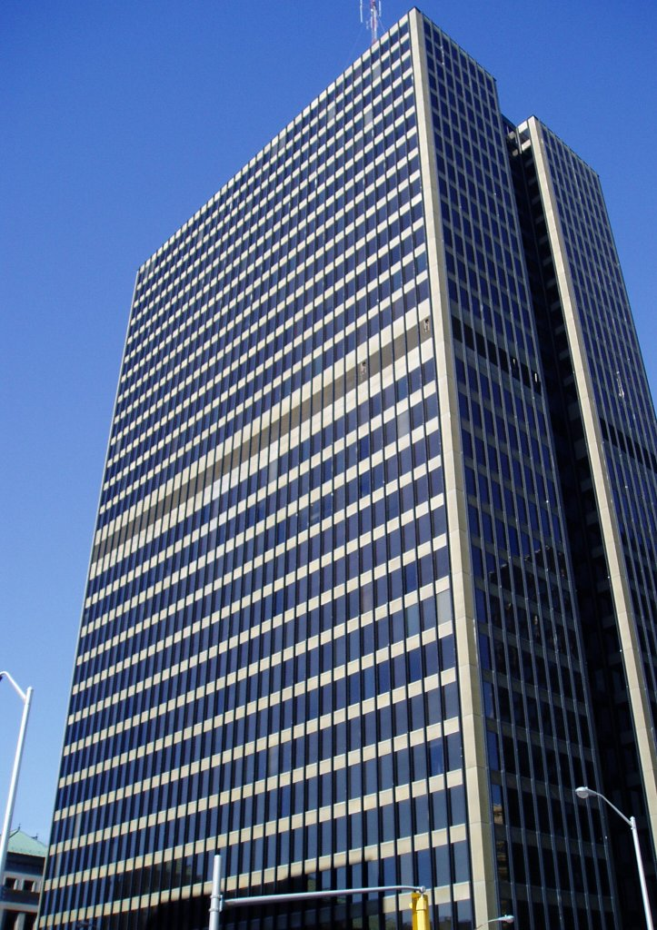 Taken by SimonP in March 2005